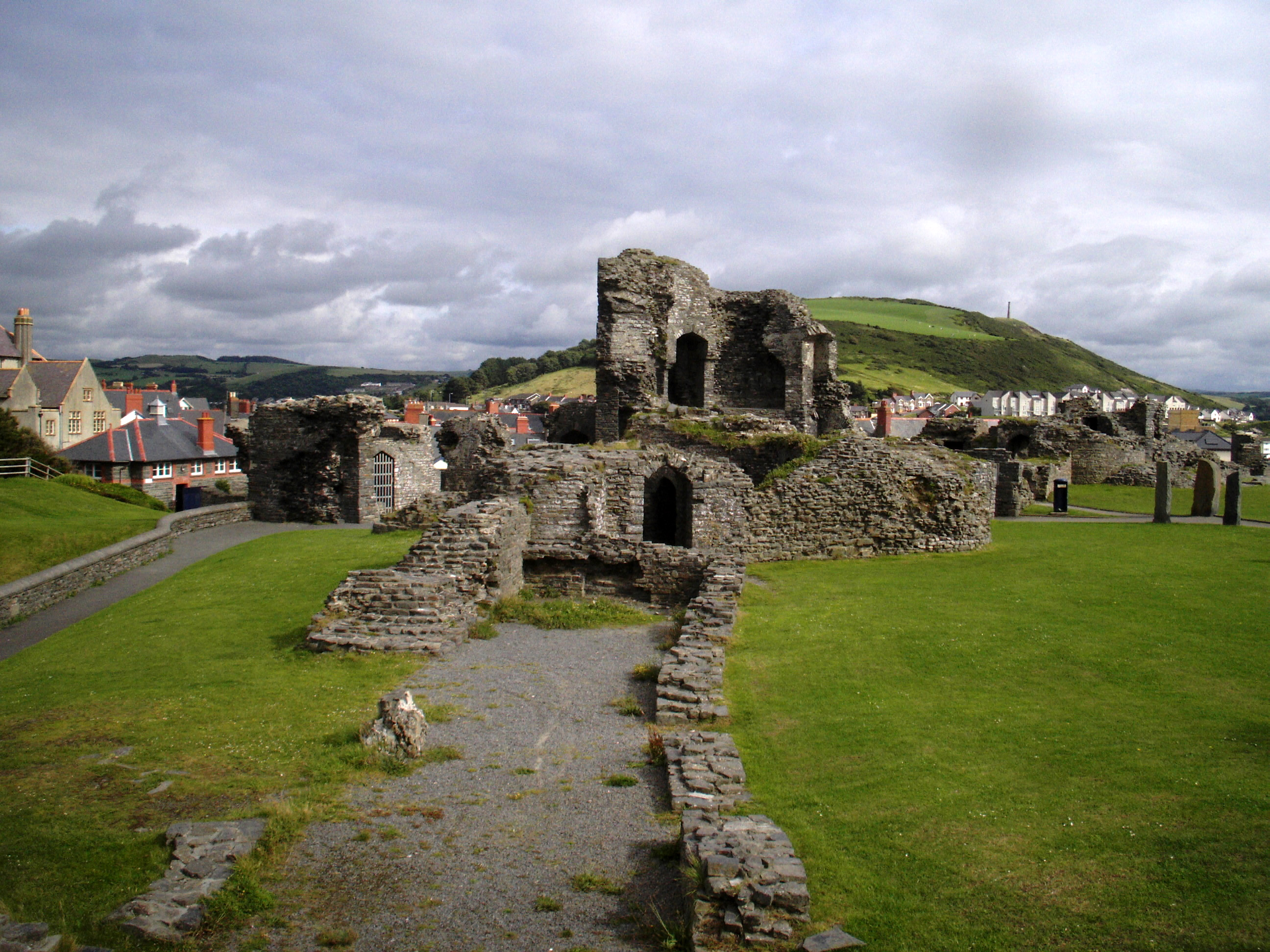 Ruins of Aberystwyth Castle